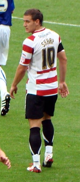 Billy Sharp playing for Doncaster Rovers against Cardiff City at Cardiff City Stadium on 21 August 2010